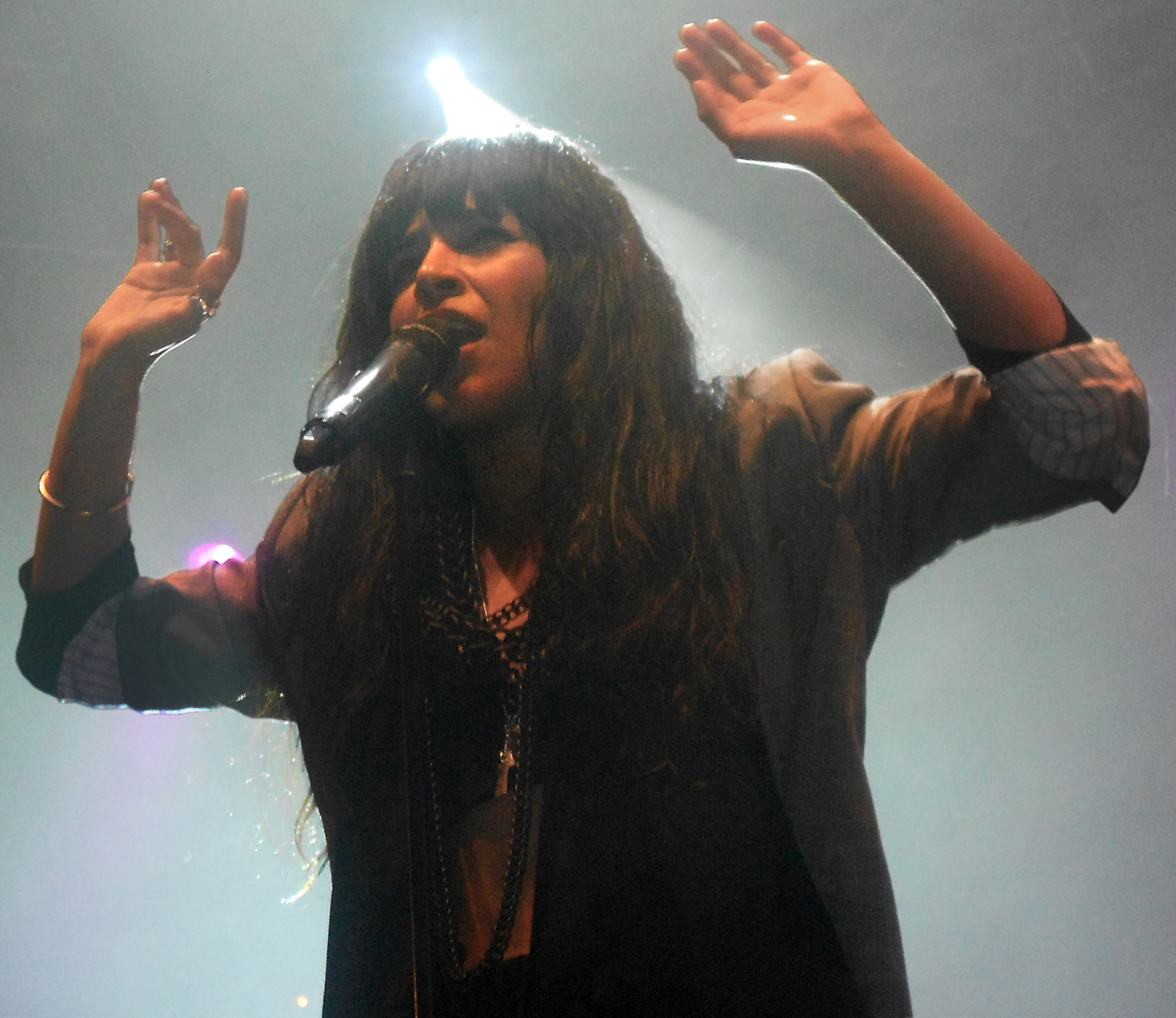 Loreen singing in Hudiksvall, Sweden. Photo by LucasHammar 2012, and photoshopping by Achird 2013.